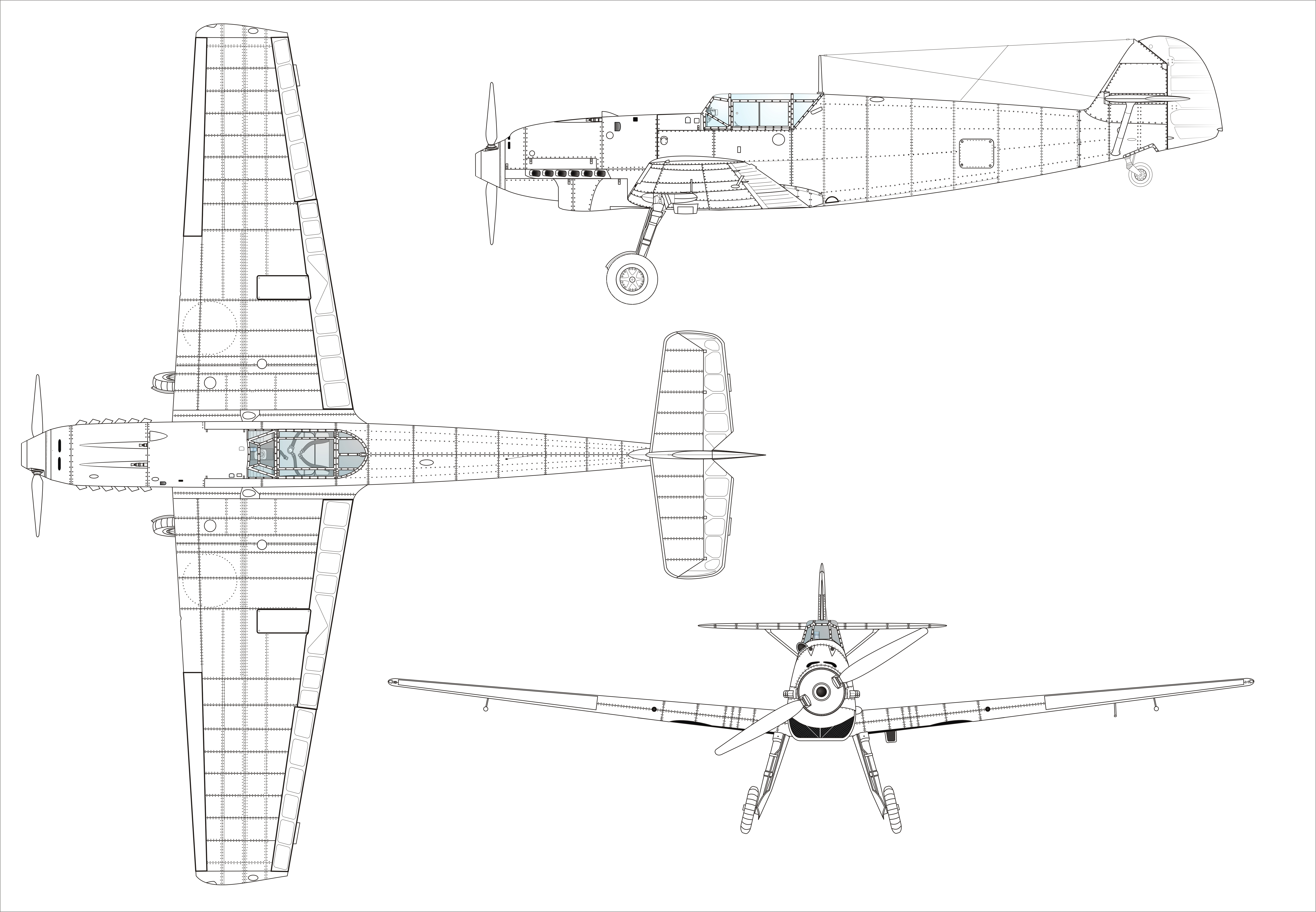 Bf 109 C-1